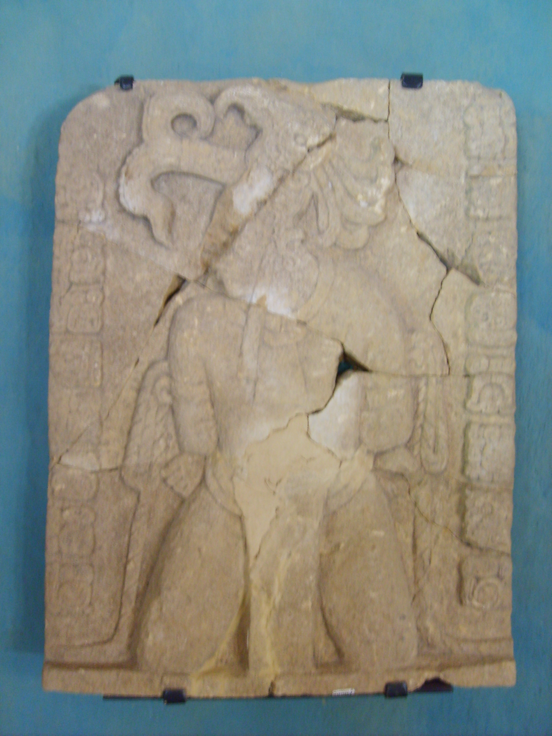 Sculpture of a war captive in the Toniná site museum.